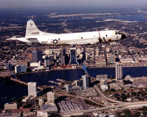 A U.S. Naval Air Reserve Lockheed P-3C Orion (BuNo 163002) of Patrol Squadron VP-62 flies over downtown Jacksonville, Florida (USA), in 1991.